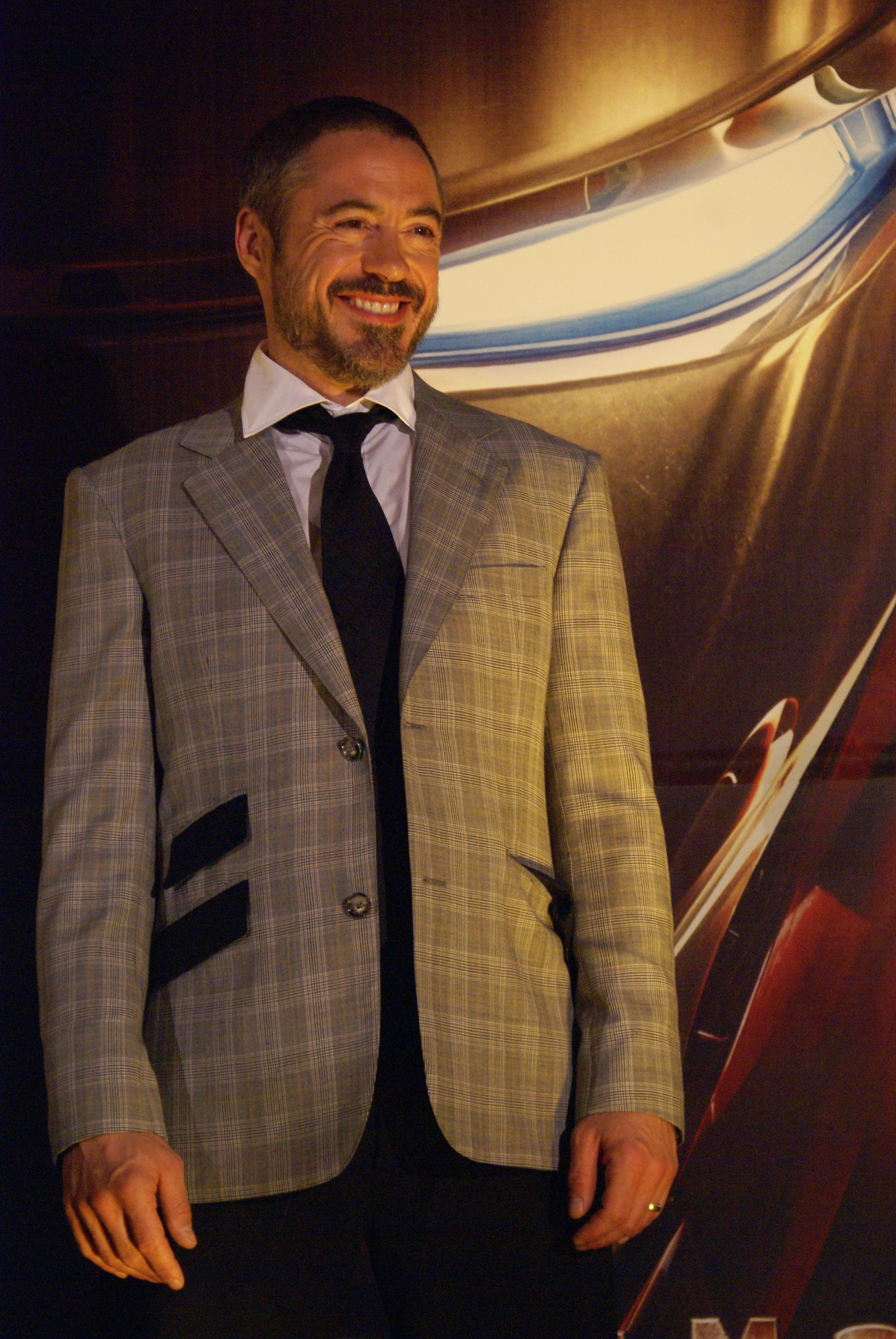 Actor Robert Downey Jr. promoting the film "Iron Man" in Mexico City